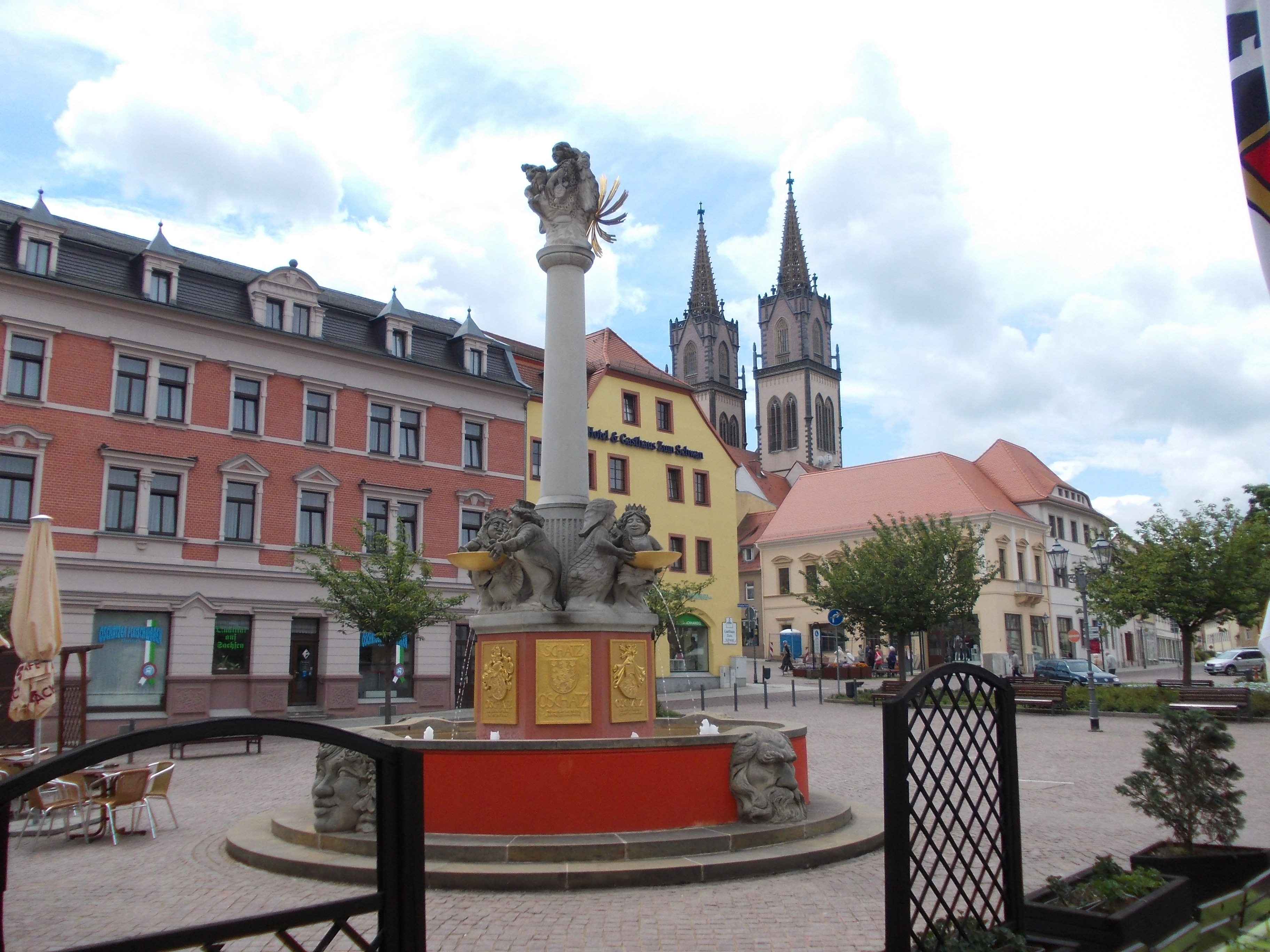 Fountain in Altmarkt square in Oschatz (Nordsachsen district, Saxony), 2004 by Joachim Zehme